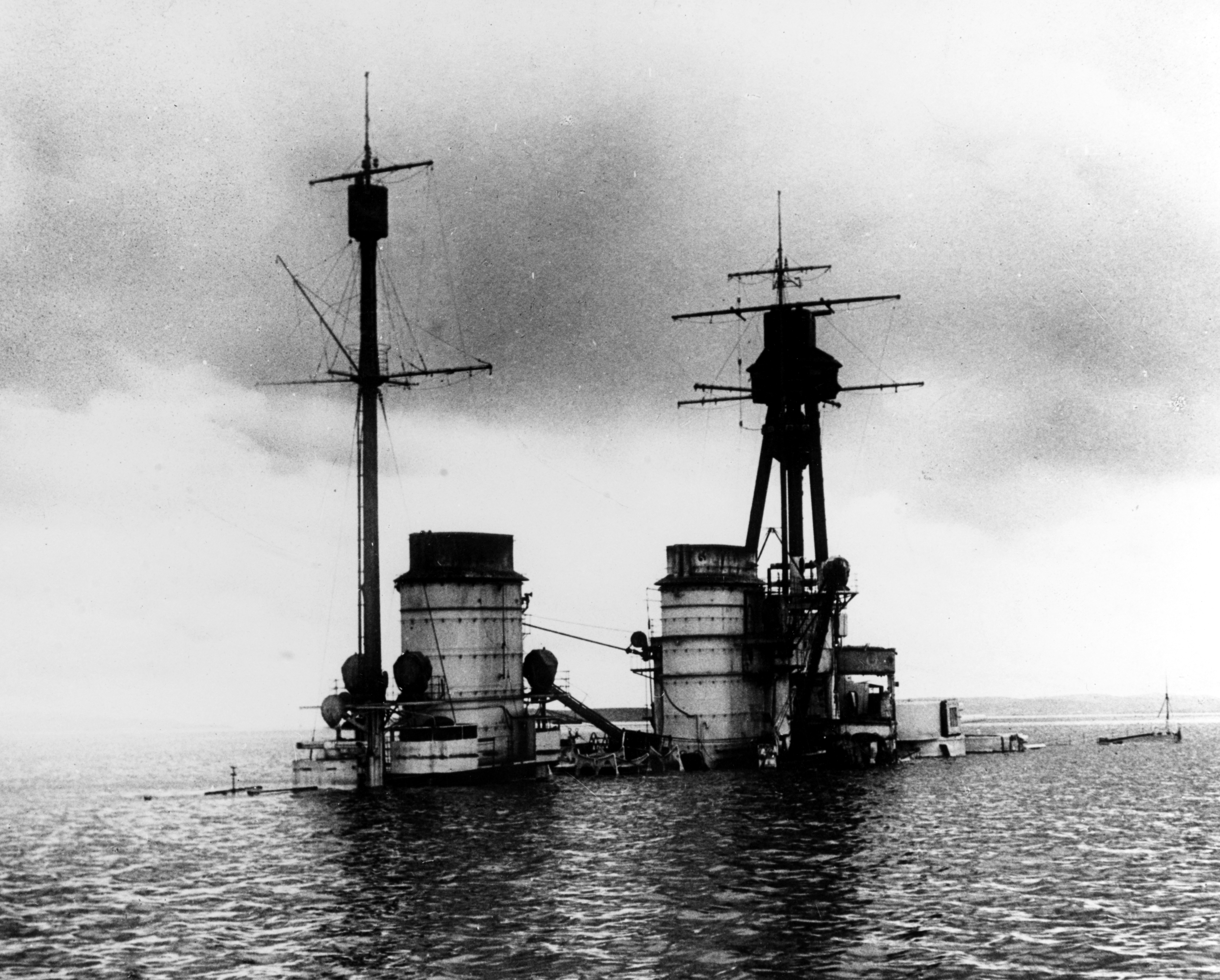 Scuttling of the German Fleet at Scapa Flow: The upper-works of the German battle-cruiser SMS Hindenburg above the water at Scapa Flow.